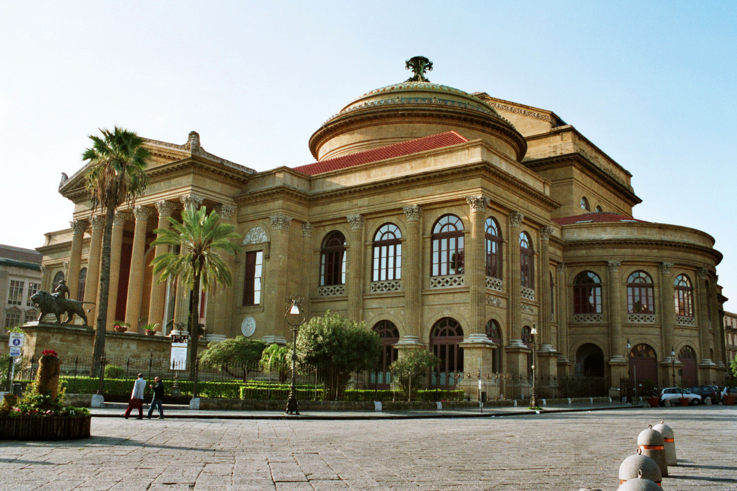 Teatro Massimo, Palermo. General view.